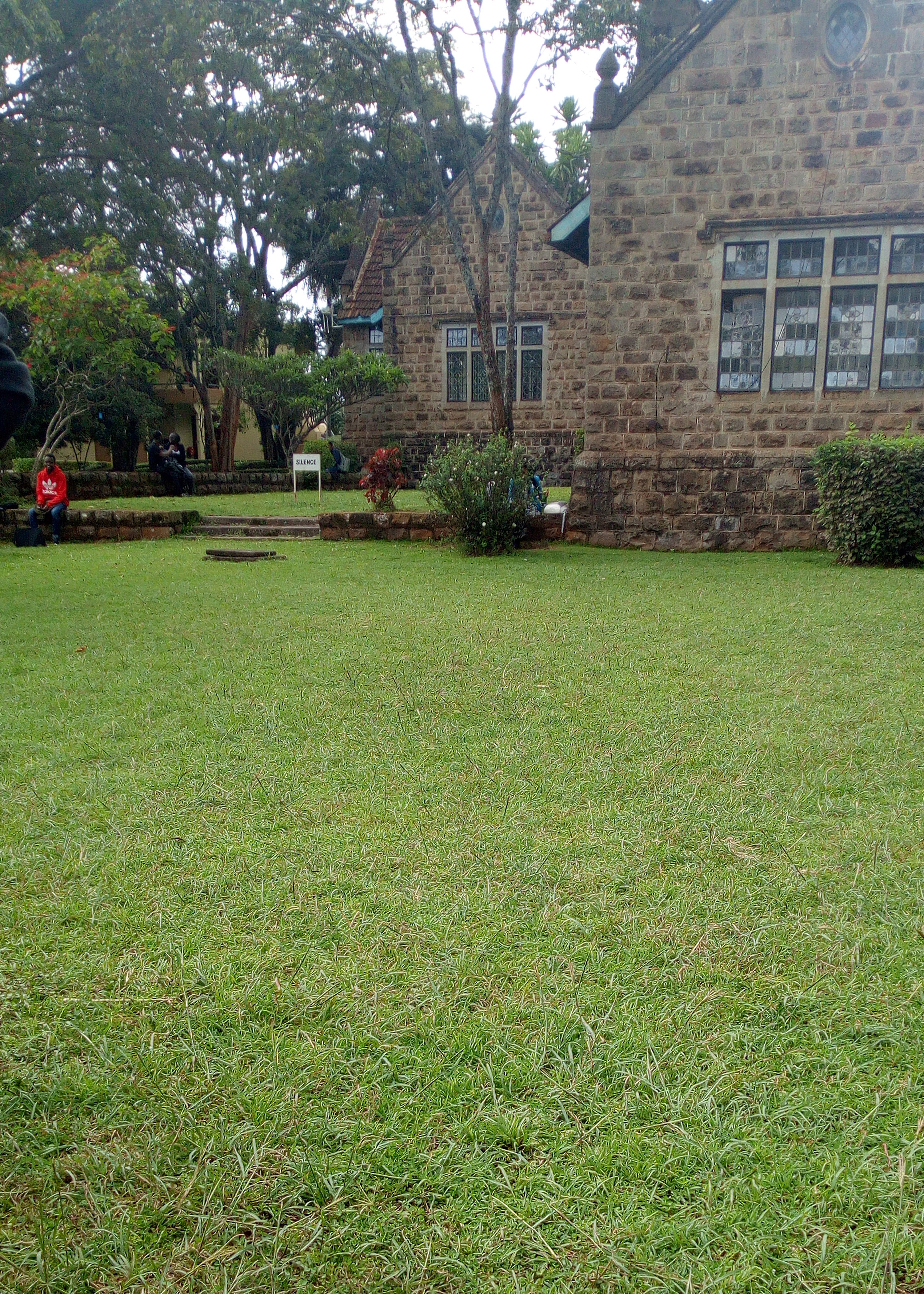 This is an image with the theme "Africa on the Move or Transport" from: Kenya